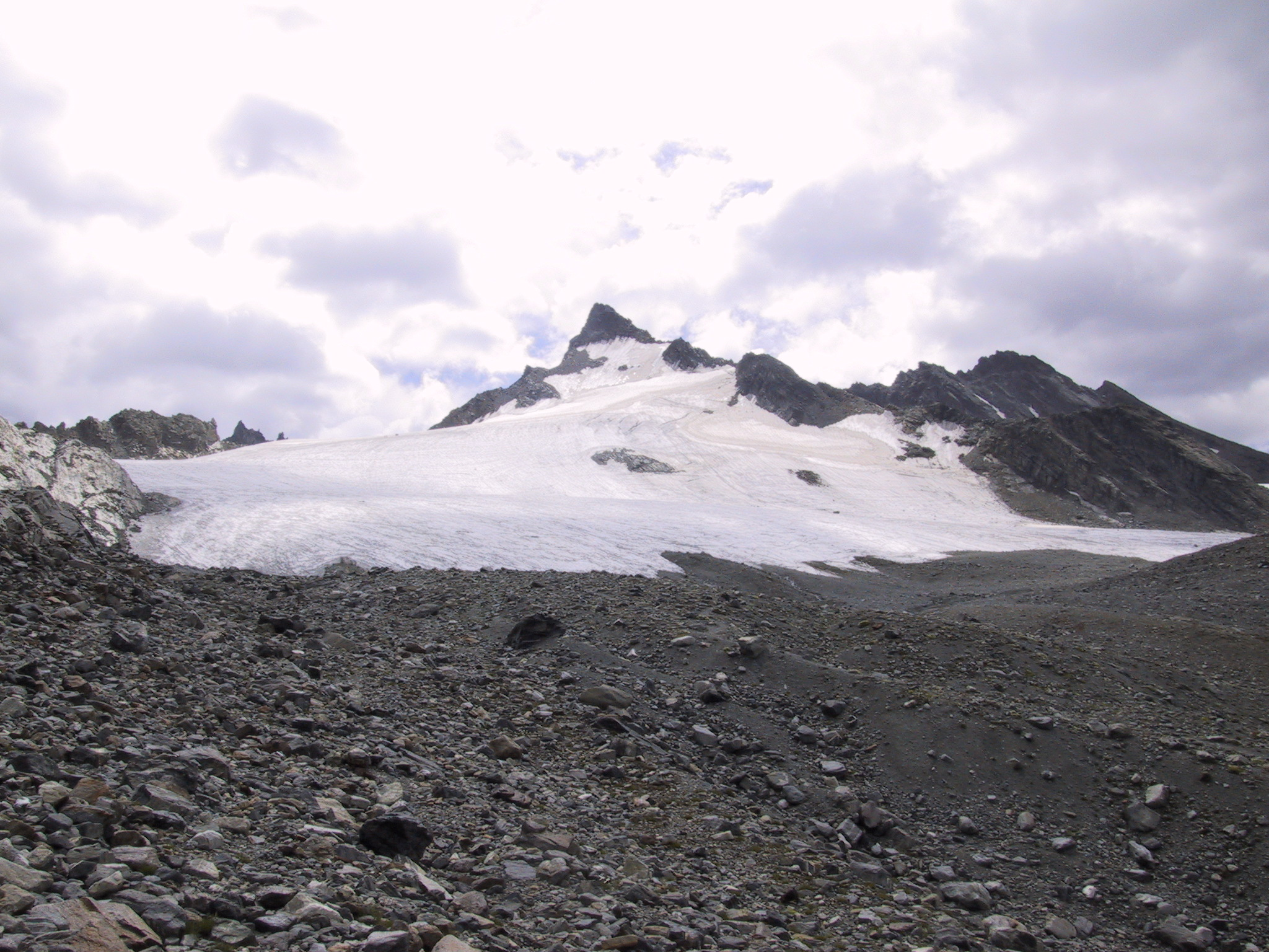 Dreilaenderspitze with Vermunt Glacier from west